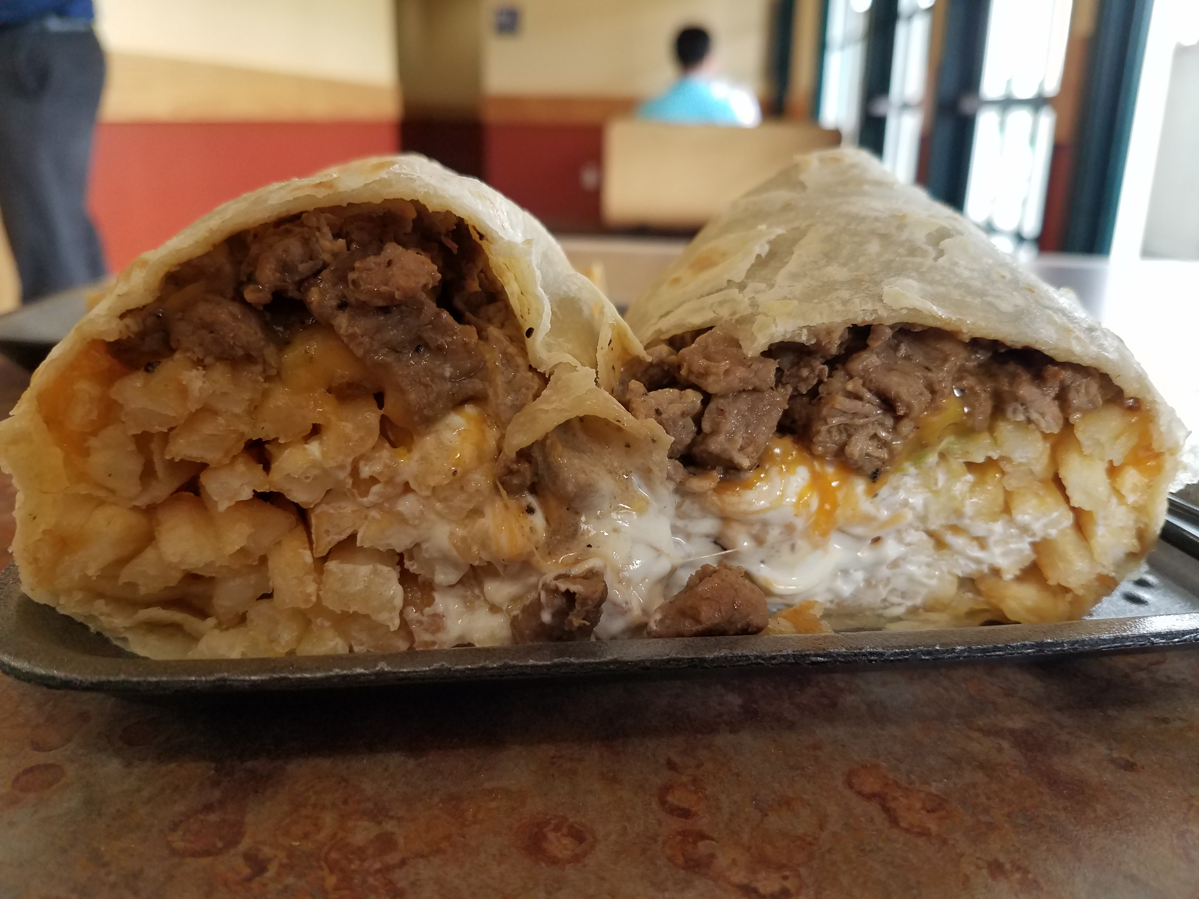 A cross section of a California Burrito sold at the Kearny Mesa location of Lolita's.